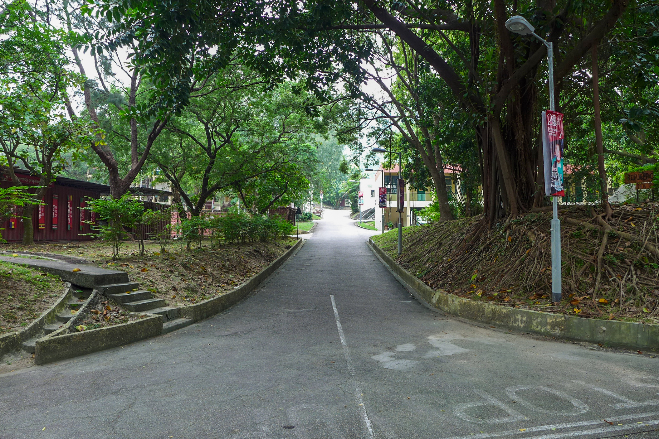 Perowne Camp